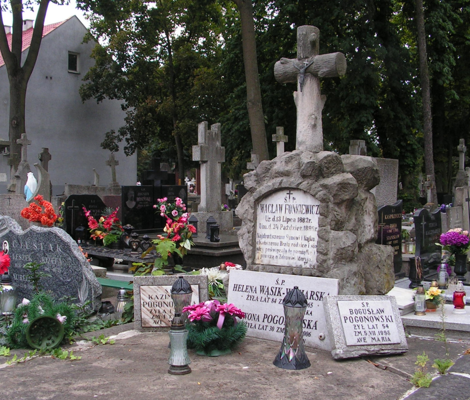 Gravestone from grave of Wacław Fonkiewicz (1882-1899) built by his parents and sisters on Communal Cemetery in Włocławek. Here where also buried: Helena Wąsik-Winiarska (1881-1965), Maria Grudewicz (1919-1977) and Kazimiera (1910-1987), Bogusław (1944-1998) and Iwona (1976-2006) Pogonowski.